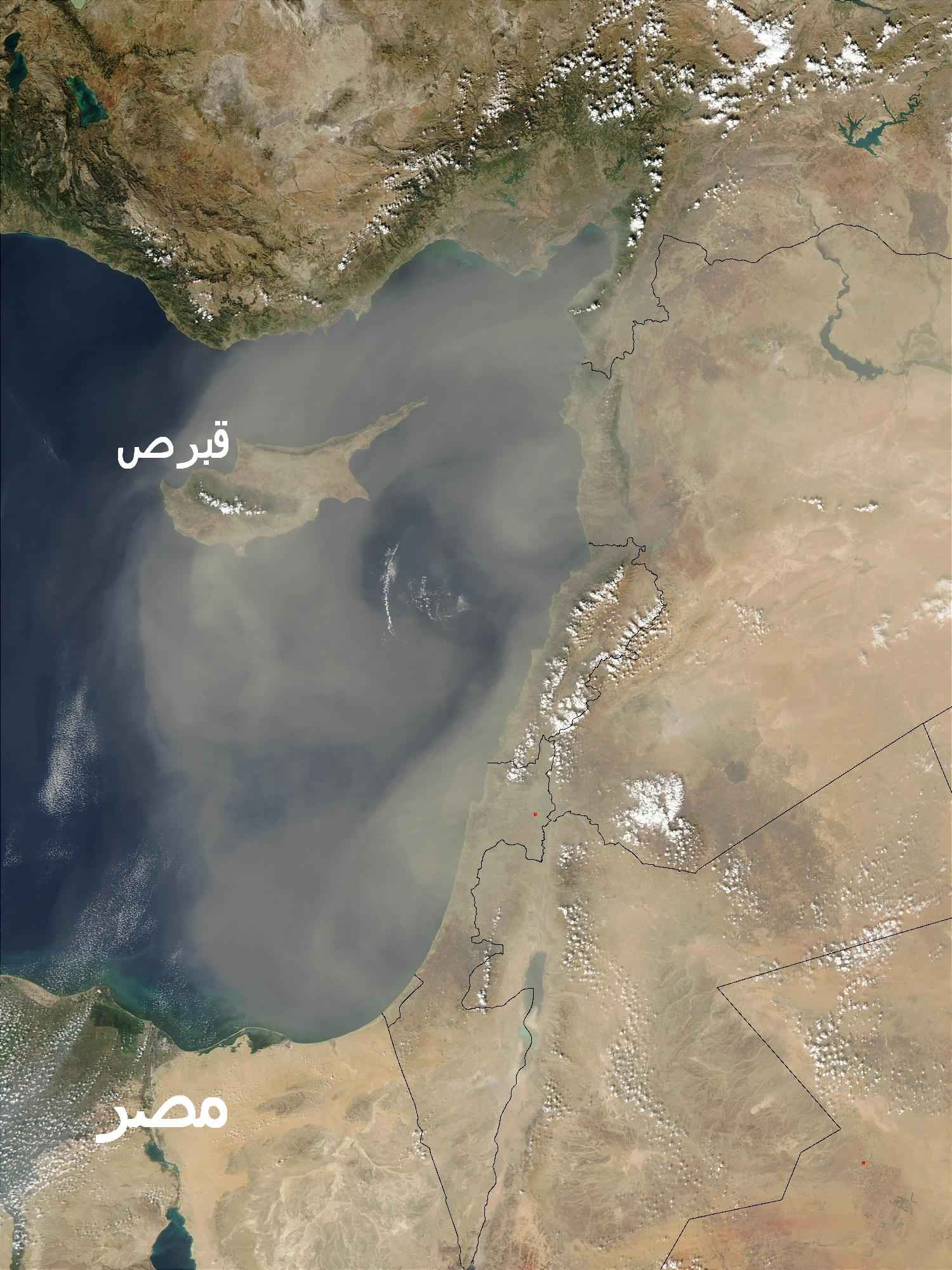 Dust storms over Cyprus On October 19, 2002, the Terra MODIS instrument captured this image of a large billowing dust storm moving west from the Middle Eastern countries of (clockwise from top) southern Turkey, Syria, Lebanon, Jordan, and Israel, out into the Mediterranean Sea, and over the island of Cyprus. Cyprus lies about 100 miles west of the Syrian coast and about 60 miles south of the Turkish coast. The dust storm stretches about 200 miles out into the Mediterranean, and it appears to be about 400 miles across from north to south. Also visible in the image are a number of fires marked in red outlines— three in the Egyptian Nile region, one in northern Israel, two in Cyprus, and a handful in Turkey. These fires are small, scattered, and do not have any visible smoke plumes.